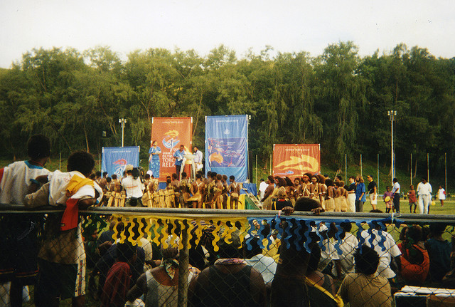 A photo of the national stadium of Solomon Island, during the Olympics Torch Relay